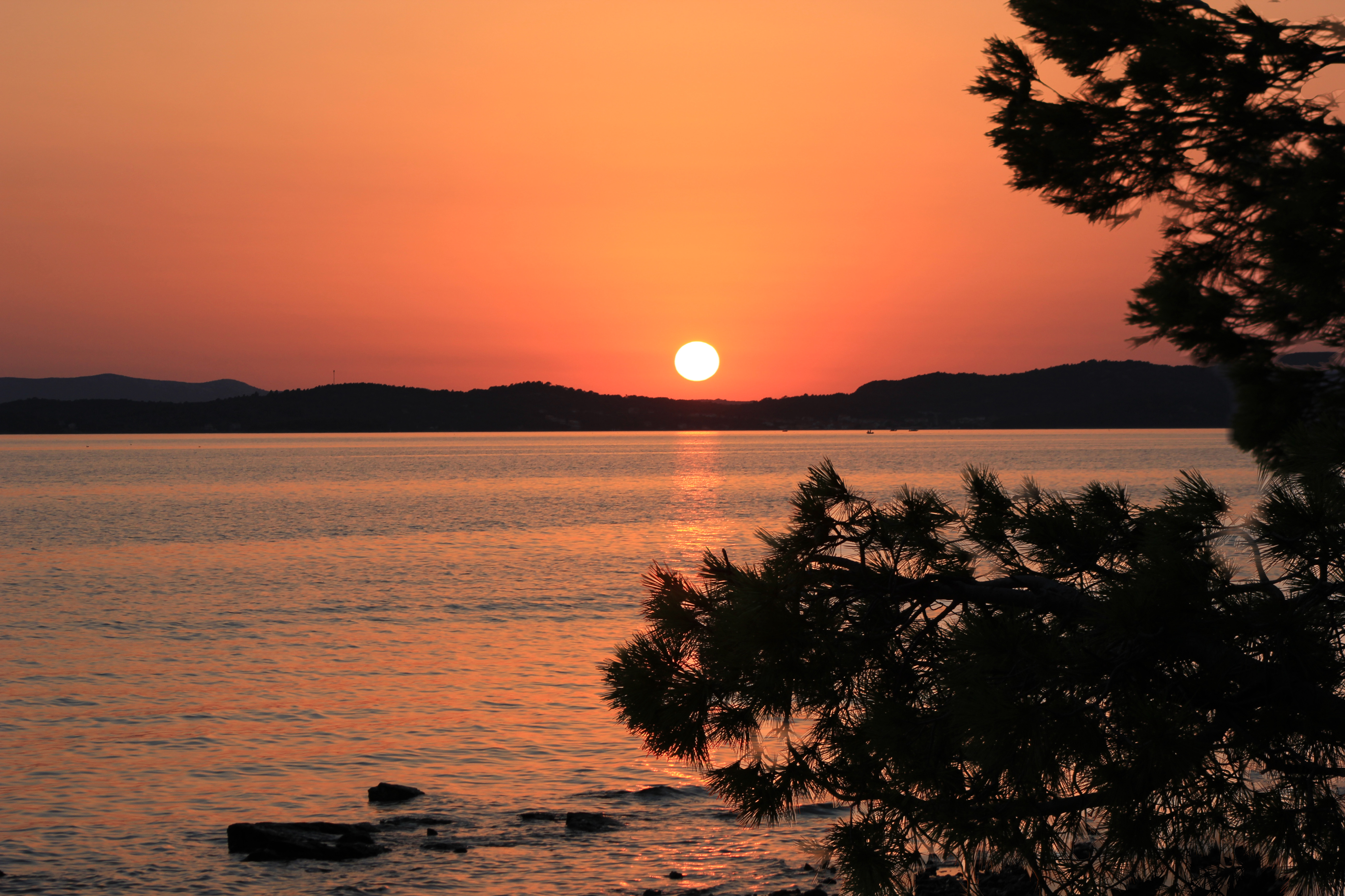 Sunset near Sukosan with the island Ugljan in the background